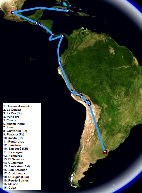 Map of the second journey of Ernesto Guevara. 1953-56